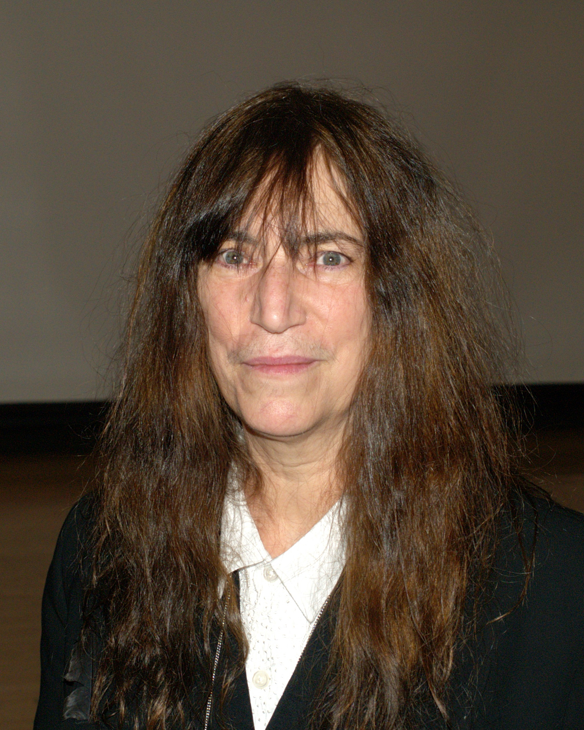 Patti Smith at the 2010 National Book Critics Circle awards. Smith was nominated for the biography award.